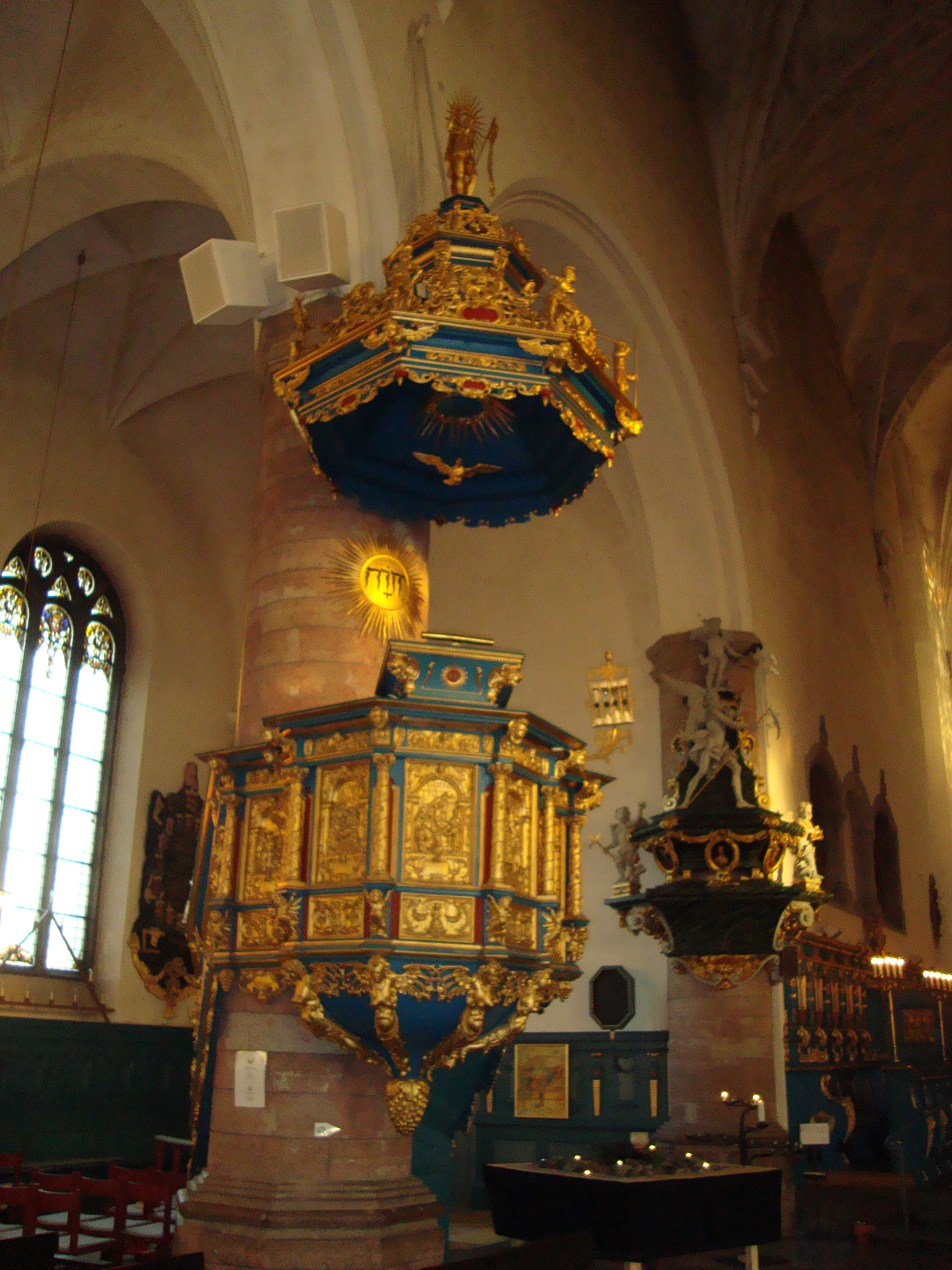 Falu Kristine church, Falun, Sweden